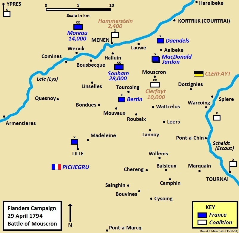 Map of the Battle of Mouscron, 29 April 1794, part of the Flanders Campaign.